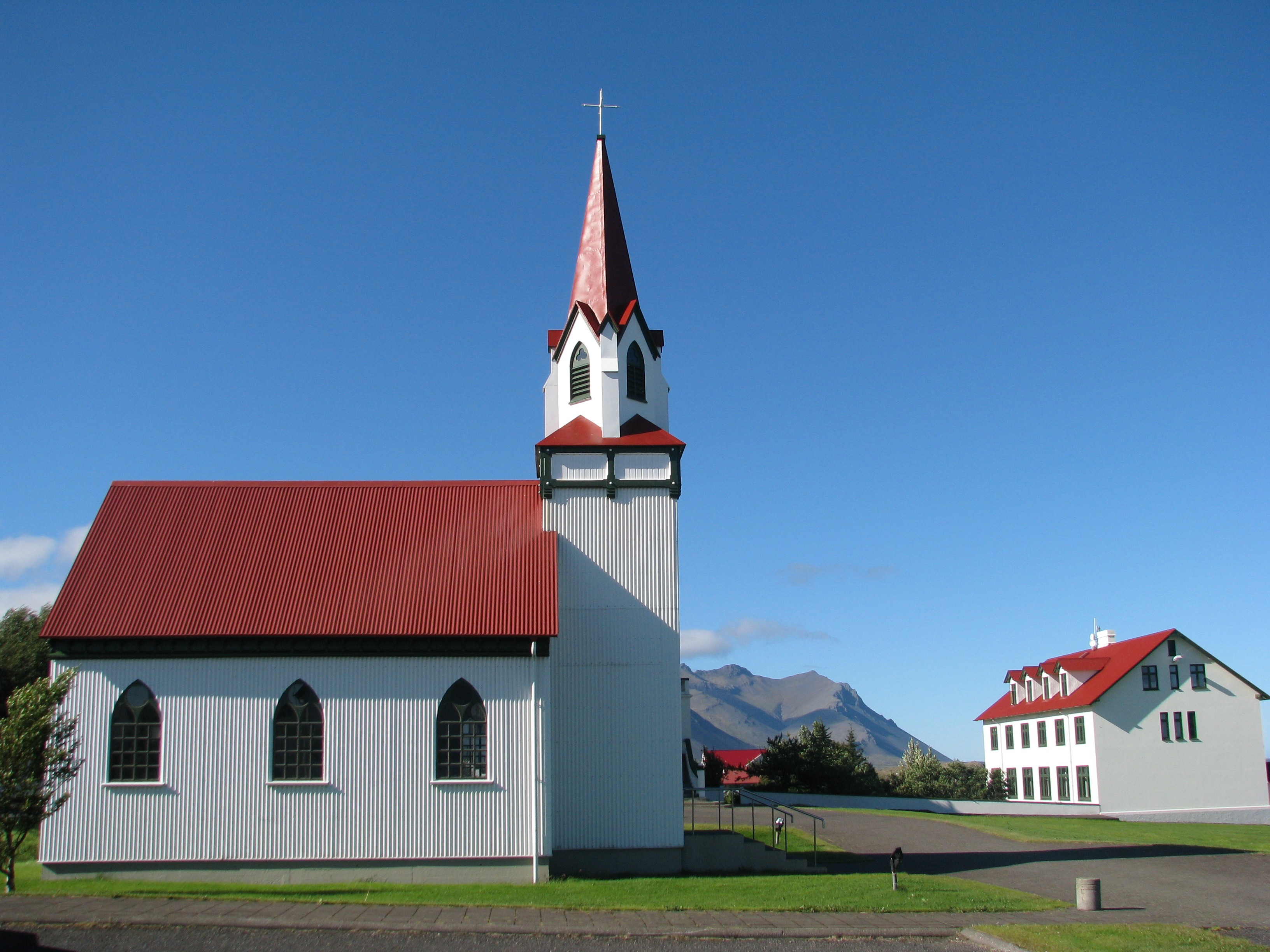 The church of Hvanneyri, a small town in Iceland.